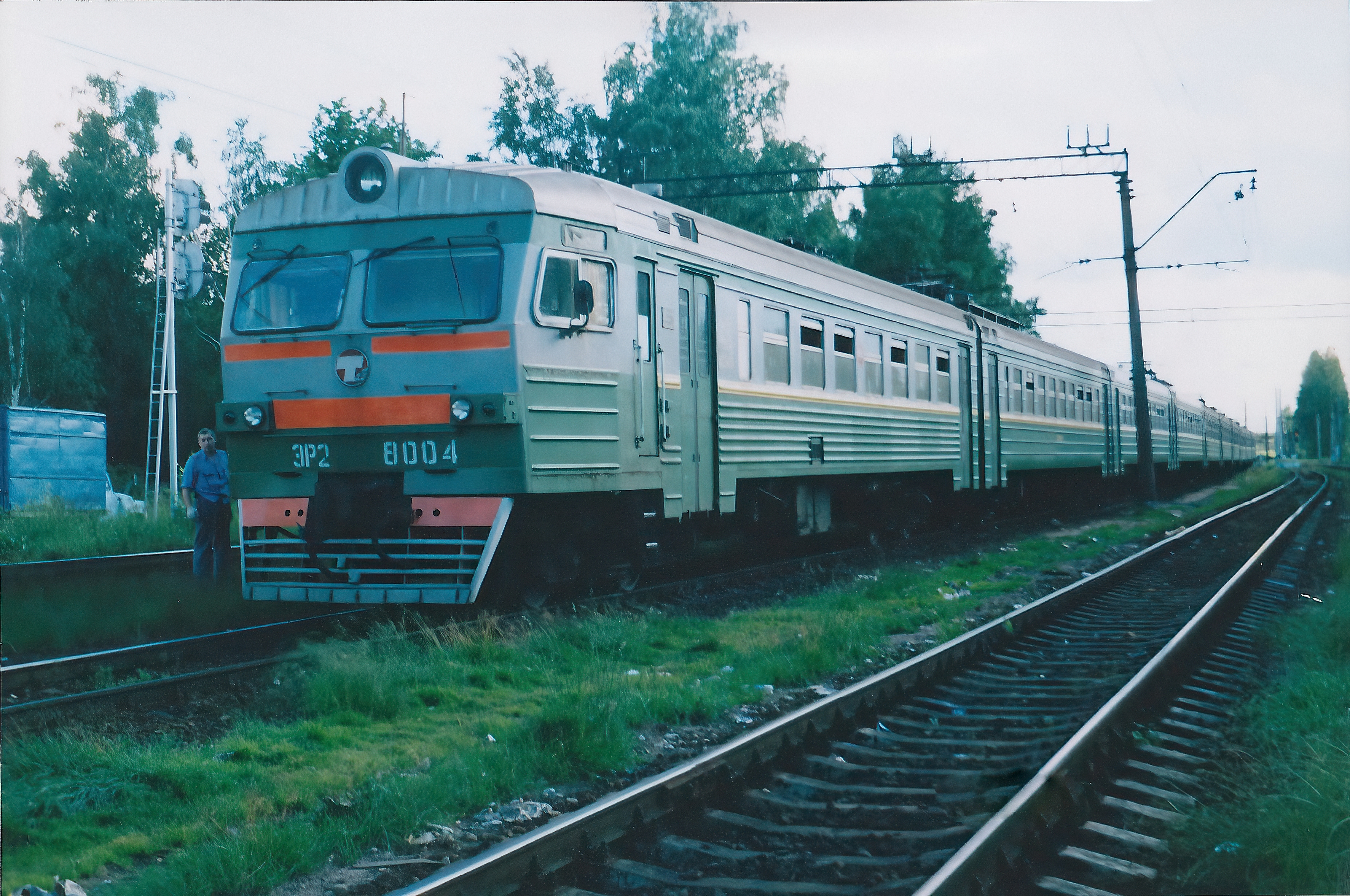 Electric multiple unit ER2-8004 with ET2R head railcars near Pavlovsk railway station.